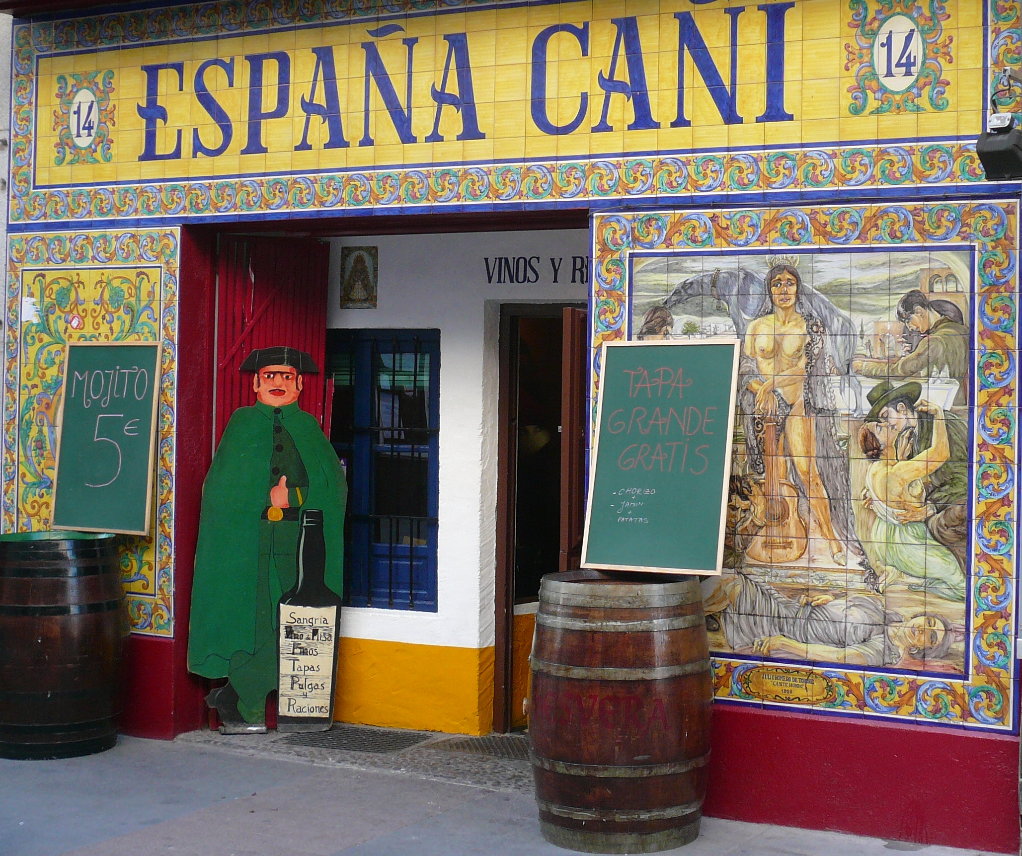 Tavern at Madrid